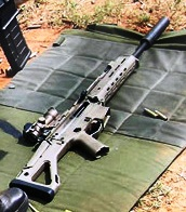 Bushmaster ACR